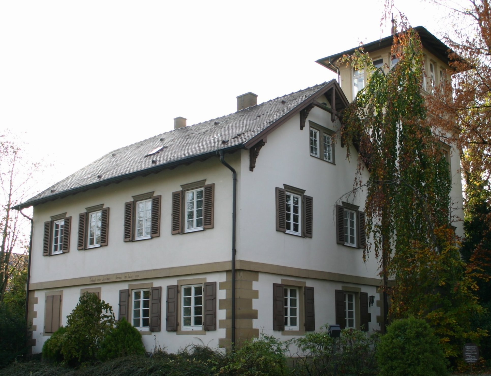 House of Justinus Kerner in Weinsberg